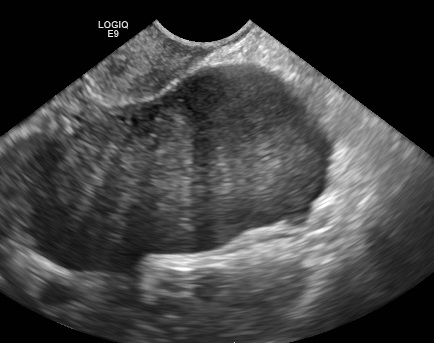 ovrian ?fibroma in ultrasound - MRI suggests fibroma, too